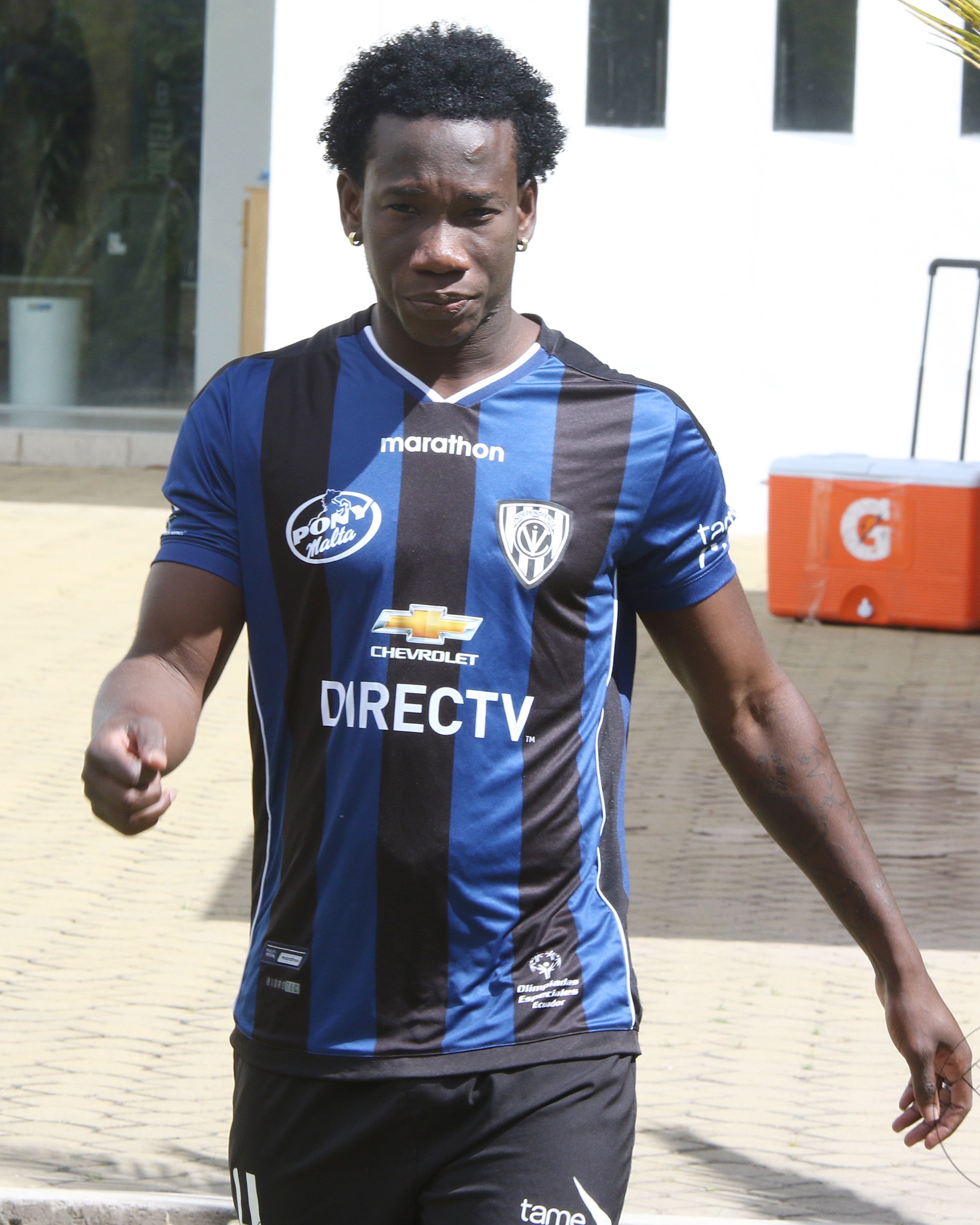 Luis Caicedo Medina